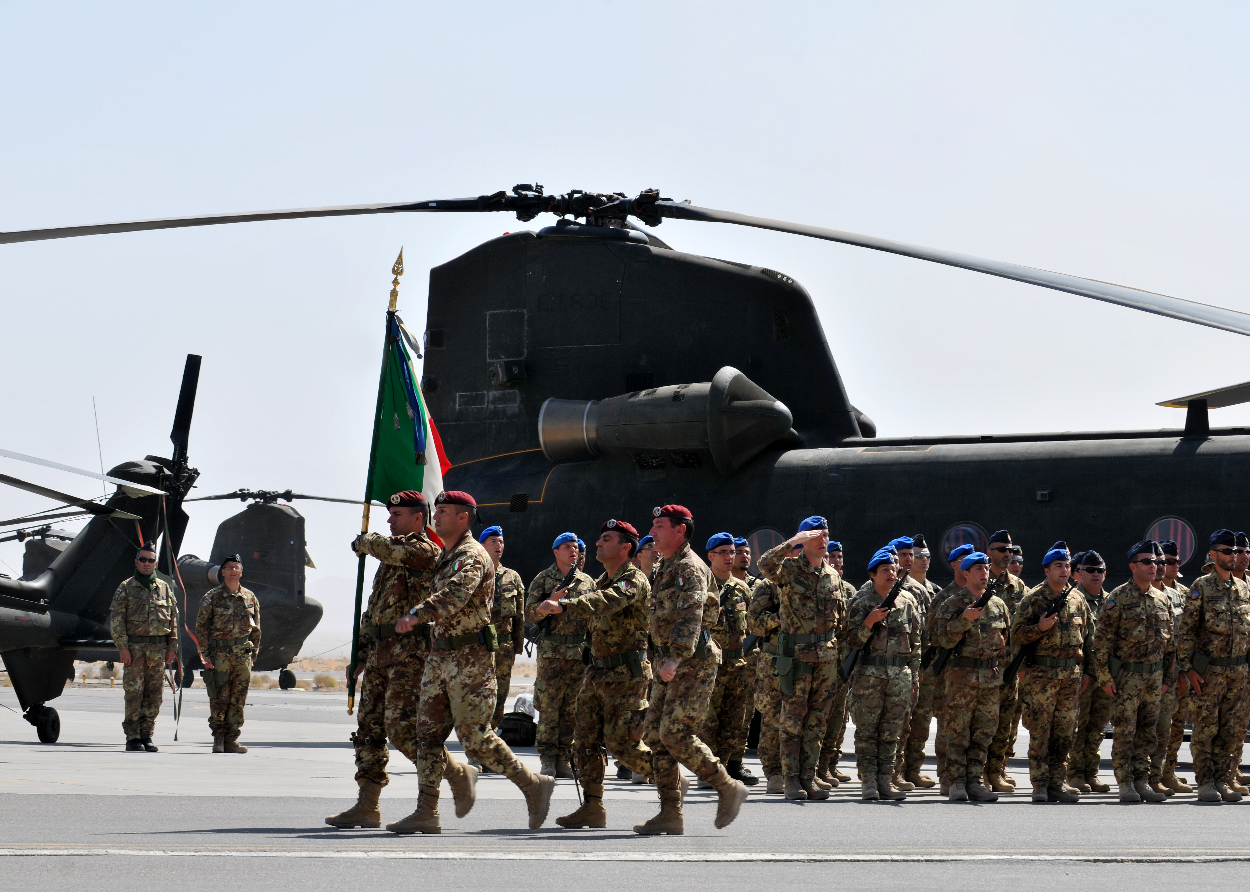 International Security Assistance Force in Afghanistan (ISAF) and Afghan military and police forces in Regional Command-West (RC-W) took part in a Transfer of Authority (TOA) ceremony in Herat province, Sept. 29, 2011. Italian Army Brig. Gen. Luciano Portolano, Sassari Brigade commander, assumed command of RC-W from out-going Italian Brig. Gen. Carmine Masiello, Folgore Brigade commander. (U.S. Air Force photo/Master Sgt. Michael O'Connor) (Released)